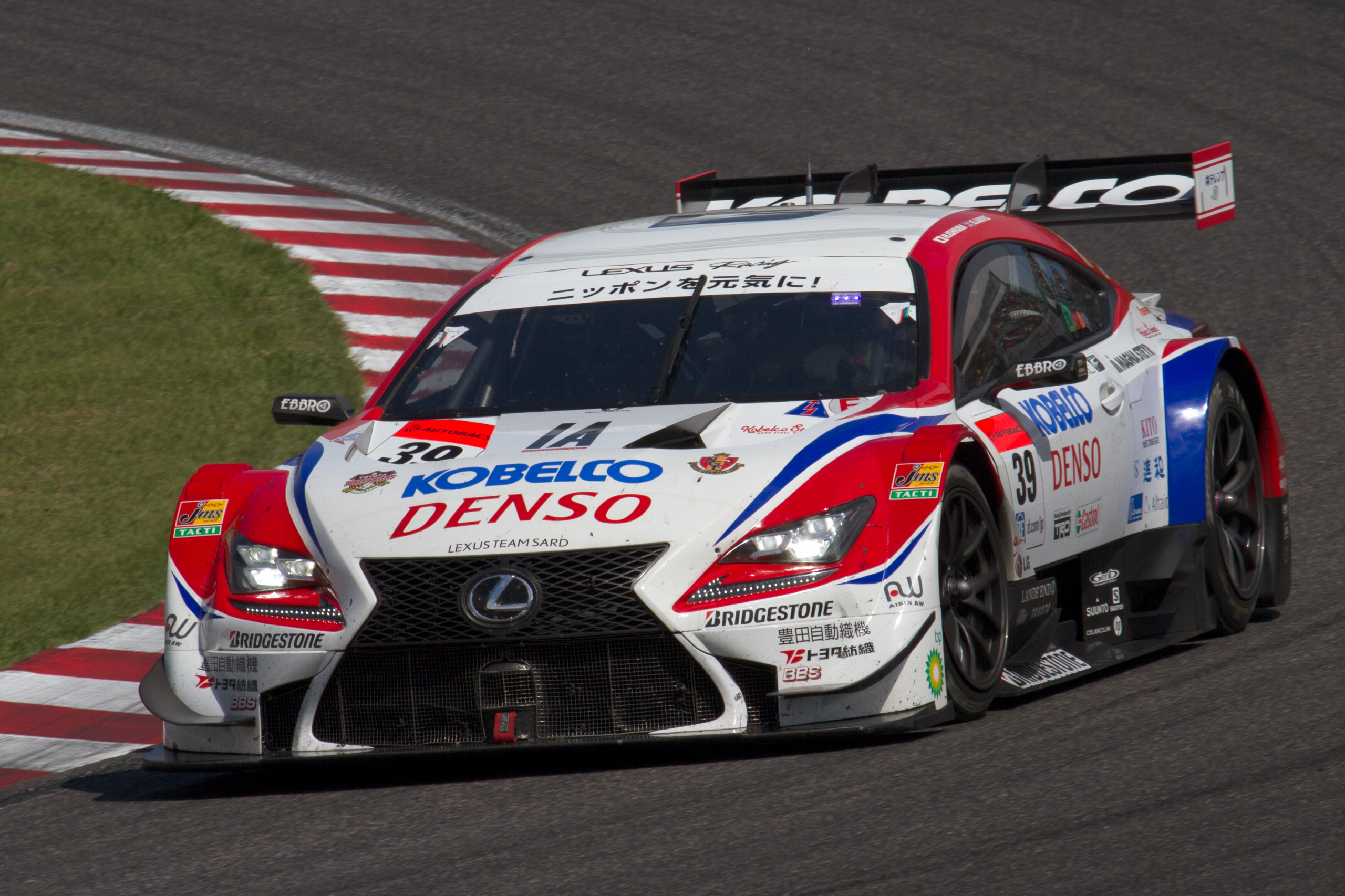 Super GT 2014 Rd.6 Suzuka 1000km: Oliver Jarvis (SARD)